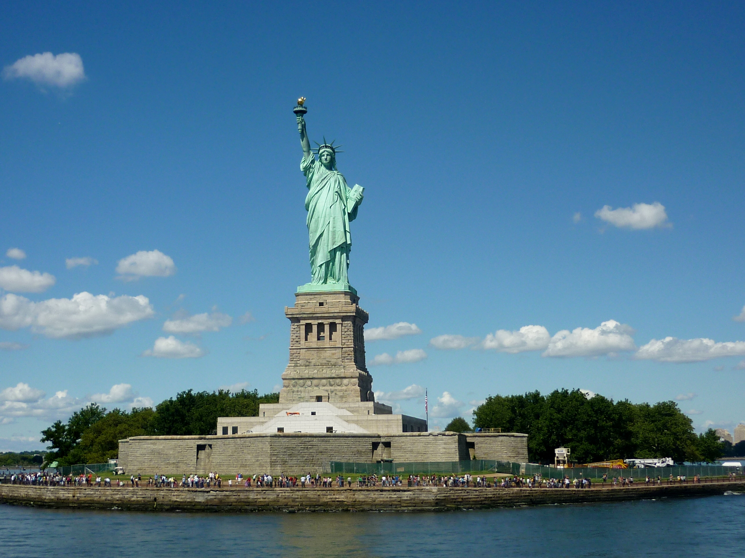 Statue of Liberty, NYC